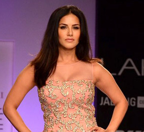 Sunny Leone walks for Archana Kochhar at LFW 2014